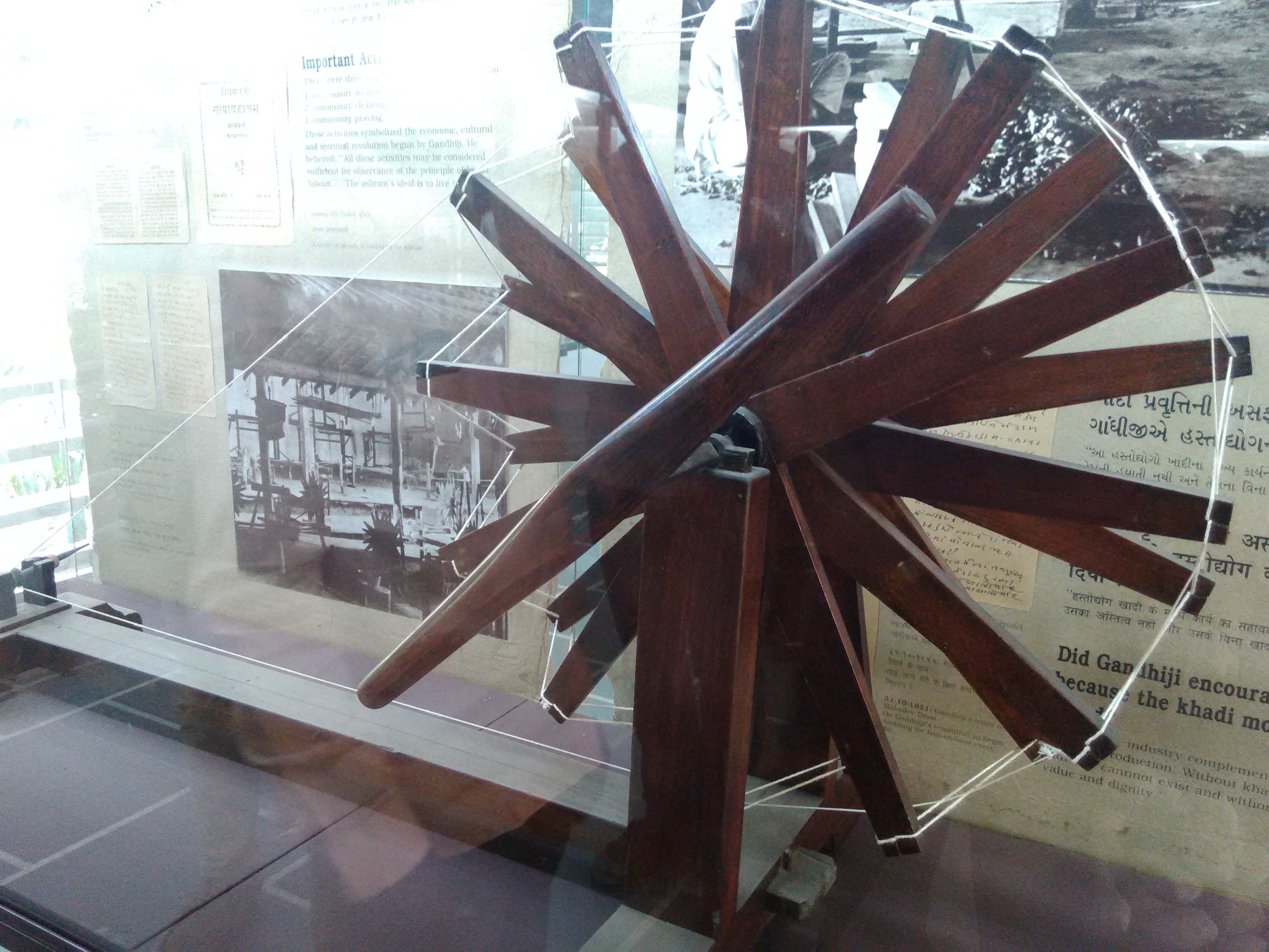 Original "CHARAKHA" usede by Mahatma Gandhi while he stays at Sabaramati Ashram , Ahamadabad , showcased at Gandhi Memorial now at the site .